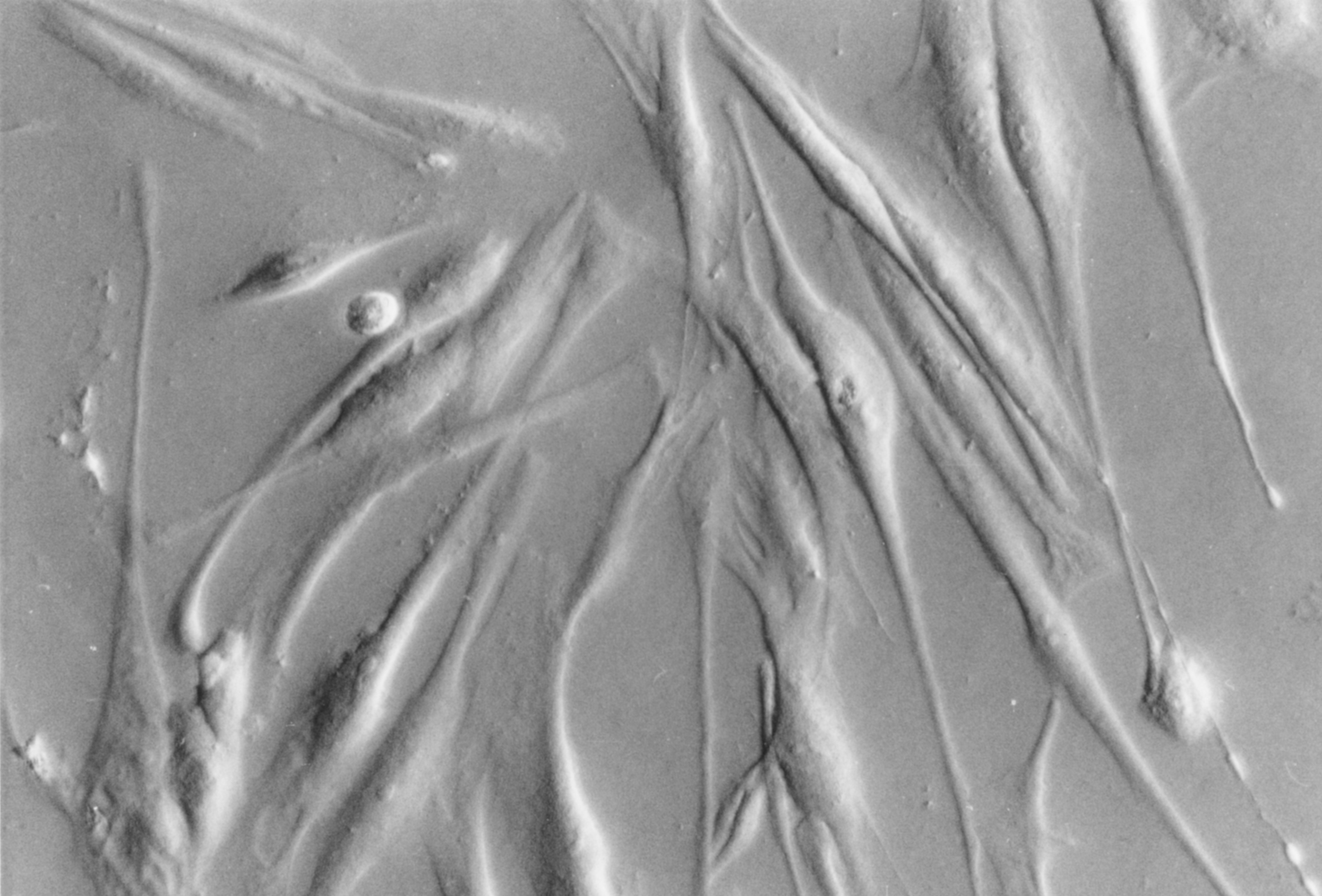 Pancreatic stellate cells in varel contrast microscopy.